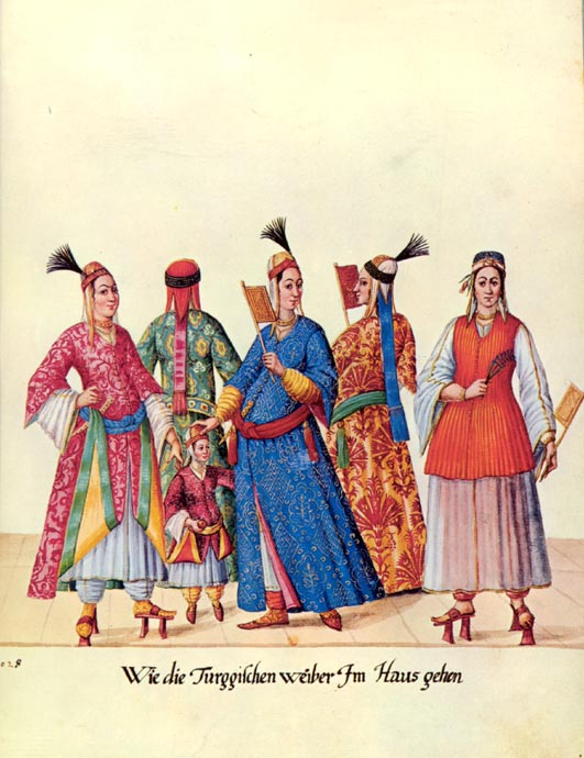 What Ottoman women wear in the home. From the Codex Vindobonensis 8626, (fol 28). Österreichische Nationalbibliothek, Vienna. By an unknown artist in the retinue of Bartolemeo von Pezzen, 1586 to 1591.